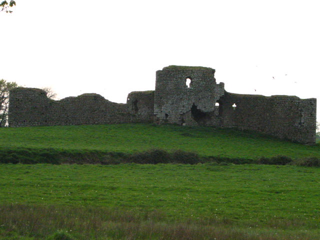 Ballymoon Castle, Ireland. A large rectangular walled keep, little is left of the interior but a formidable fortress still stands. Access is gained through a small gate from the Bagenalstown to Fenagh main road.